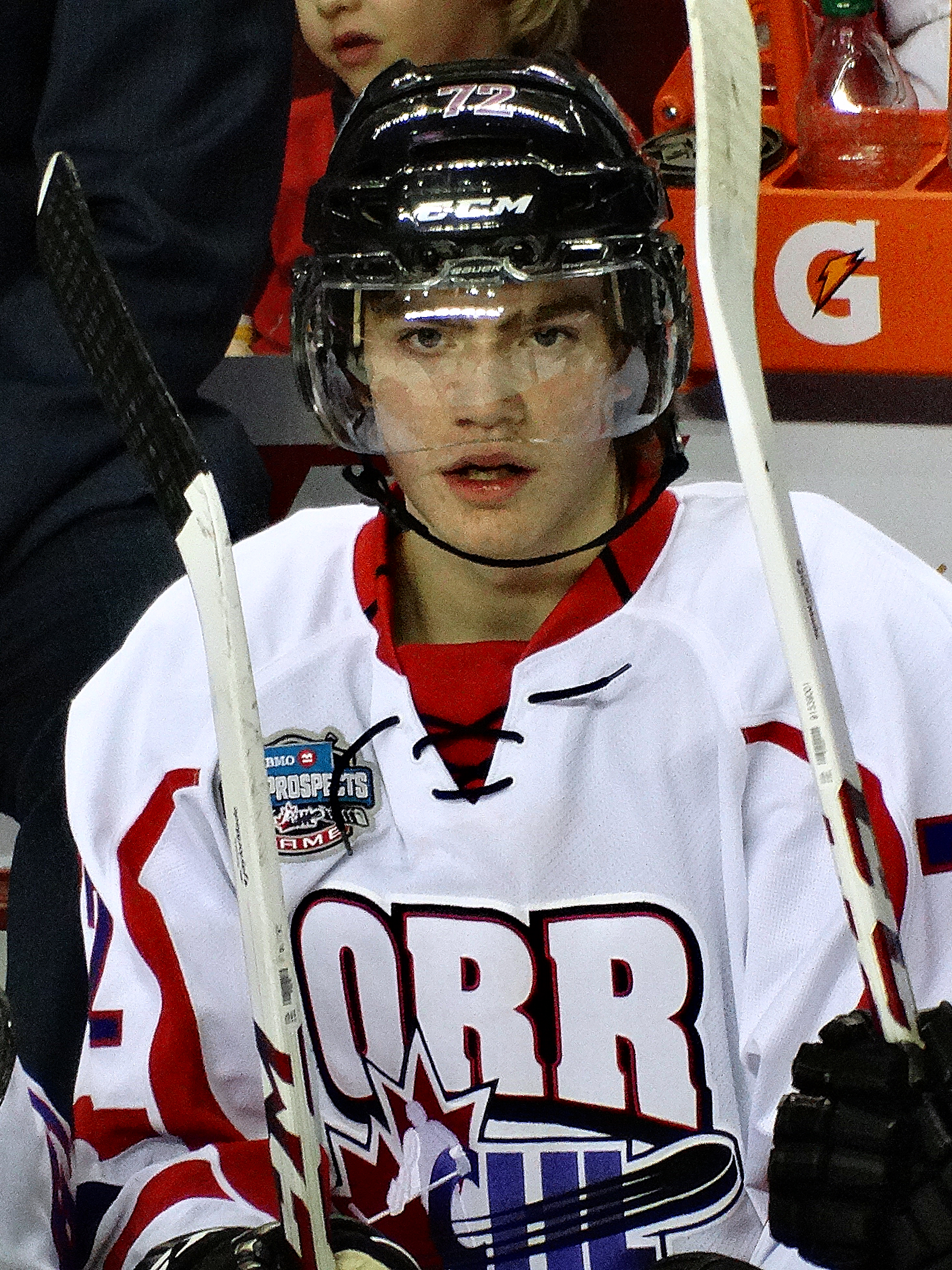 Brayden Point, Canadian ice hockey centre at the CHL / NHL Top Prospects Game